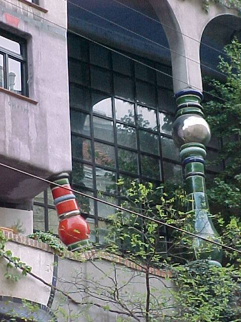 Austria, Vienna, Hundertwasserhaus